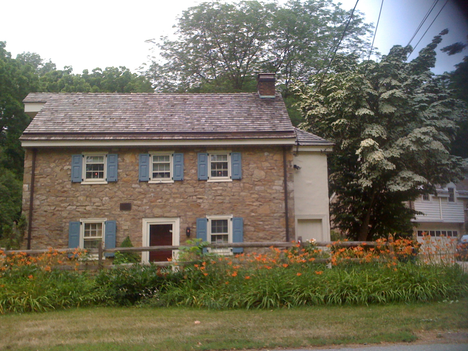 Original William Penn land, Blacks Mill during American Revolution. Deed signed by John Dickinson. Mill burned by Hessian conscripts marching to the Battle of Brandywine, Aug 1777. 1805 to ~1925: Eastburn Kilns Machine Shop. Historic District consists of 6 buildings: Abel Jeans Manor House, Blacks Mill and horse stable, outhouse, other structures. Also: ancient limestone quarries now overgrown and home to wildlife; and restored kilns, Mill was renovated by architects of White House during Kennedy Administration. District comprises several private residences on Upper Pike Creek Road.